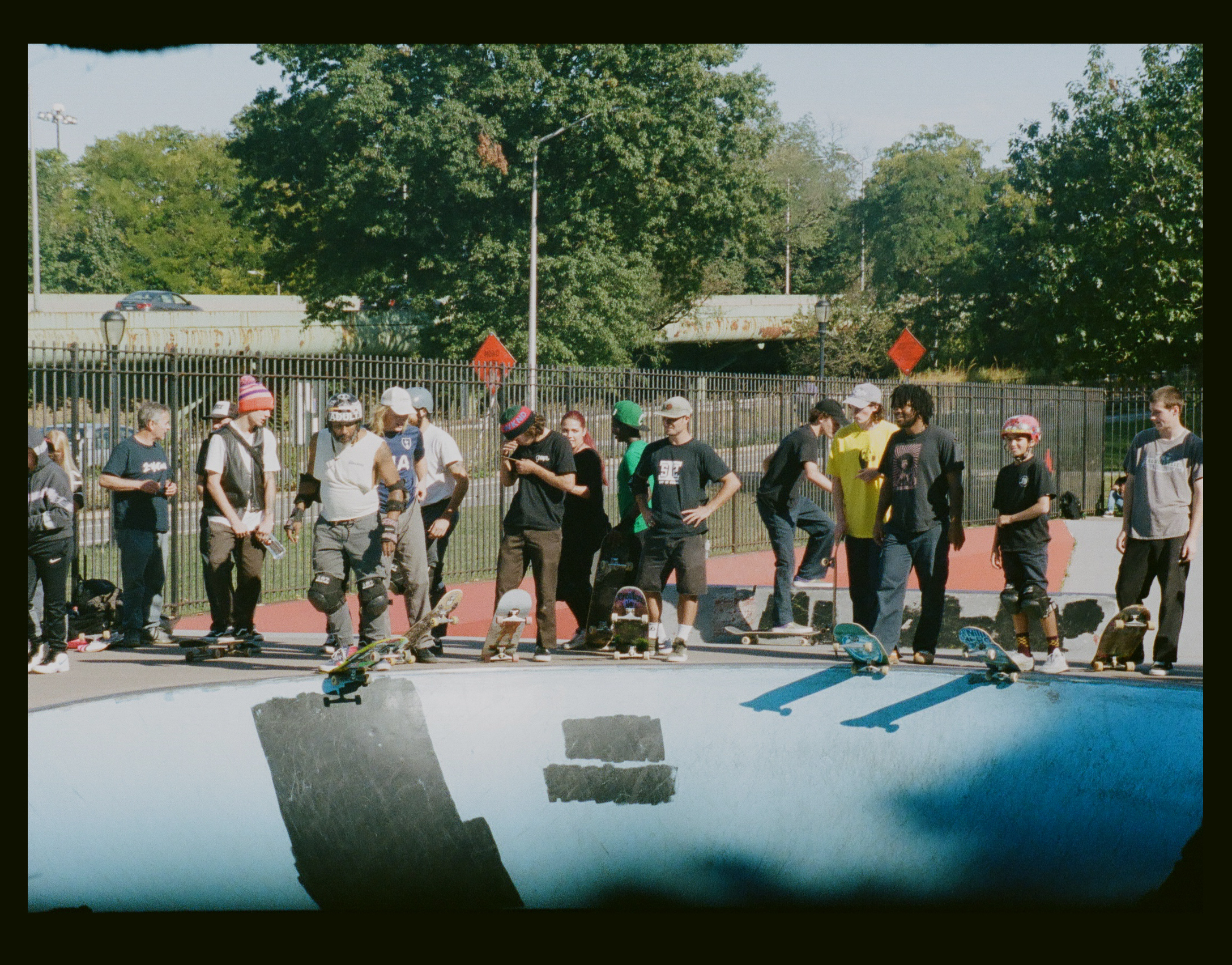 Skaters wait to drop in the bowl at Millennium Skate Park also known as Owl's Head Skate Park at the NYC Skate Coalitions - Pool series event - October 2019